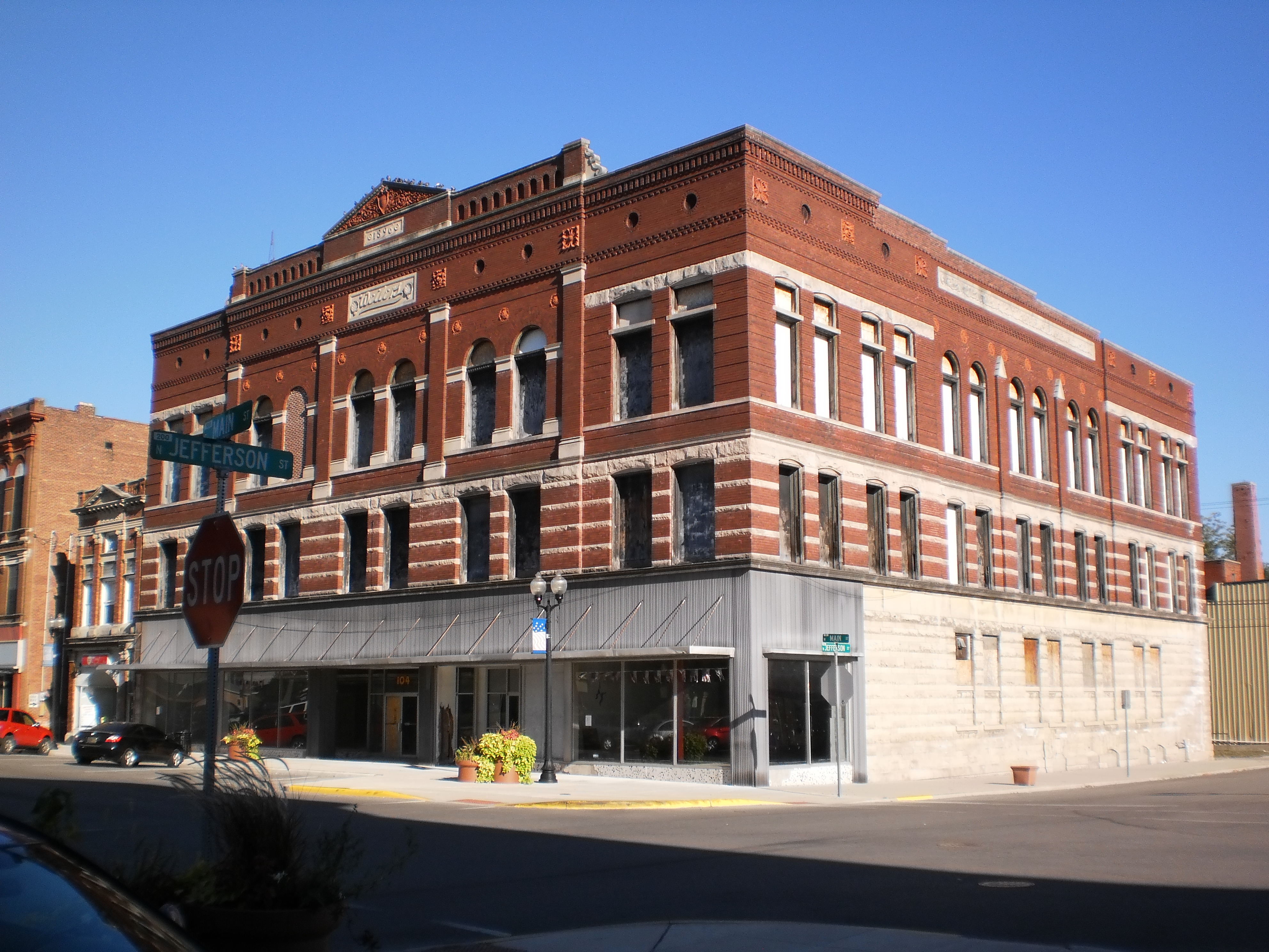 This department store building is part of the Hartford City Courthouse Square Historic District in Hartford City, Indiana, USA. It was built in 1896. Original store was the Weiler Brothers.